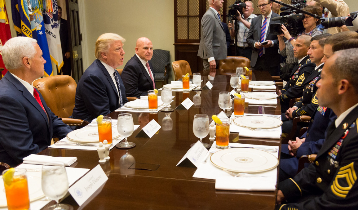 President Trump, Vice President Pence, and National Security Adviser Lt. Gen. H.R. McMaster have lunch with Service Members | July 18, 2017 (Official White House Photo by Shealah Craighead)